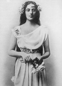 Solomiya Krushelnytska Sulamith in Die Königin von Saba by Karl Goldmark